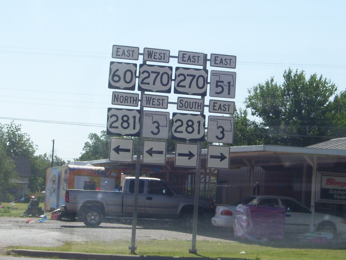 Signage where U.S. 60/OK-51 meet U.S. 270, U.S. 281, and OK-3, in Seiling, Oklahoma.